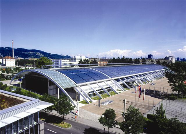 The Design-Center of the city of Linz